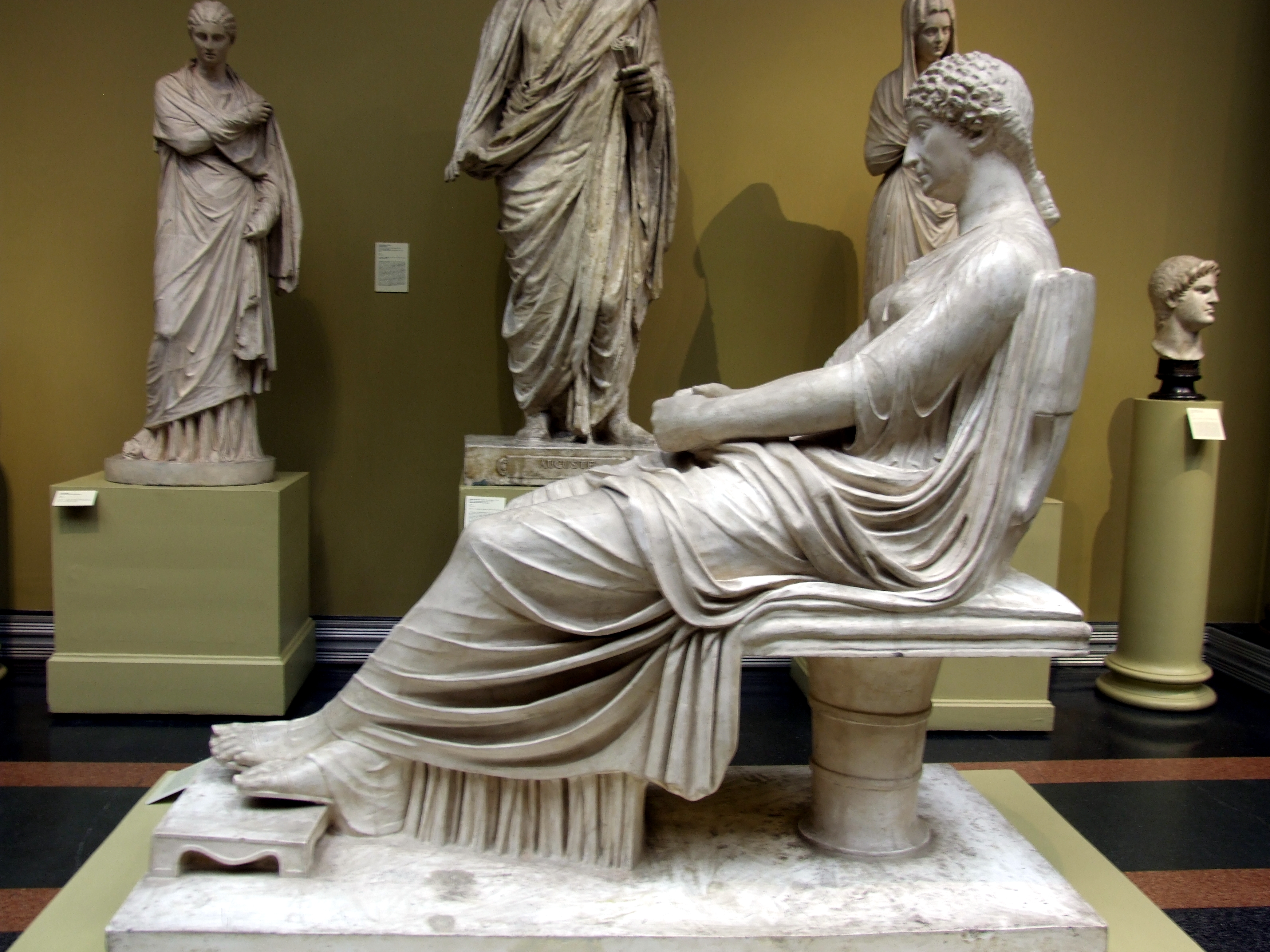 Agrippina Minor. Plaster cast in Pushkin Museum. The original was found in the surroundings of Rome, is part of the Farnese Collection, and is now in the National Archeological Museum, Neaples.